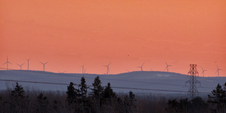 The Kent Hills Wind Farm seen from Moncton.